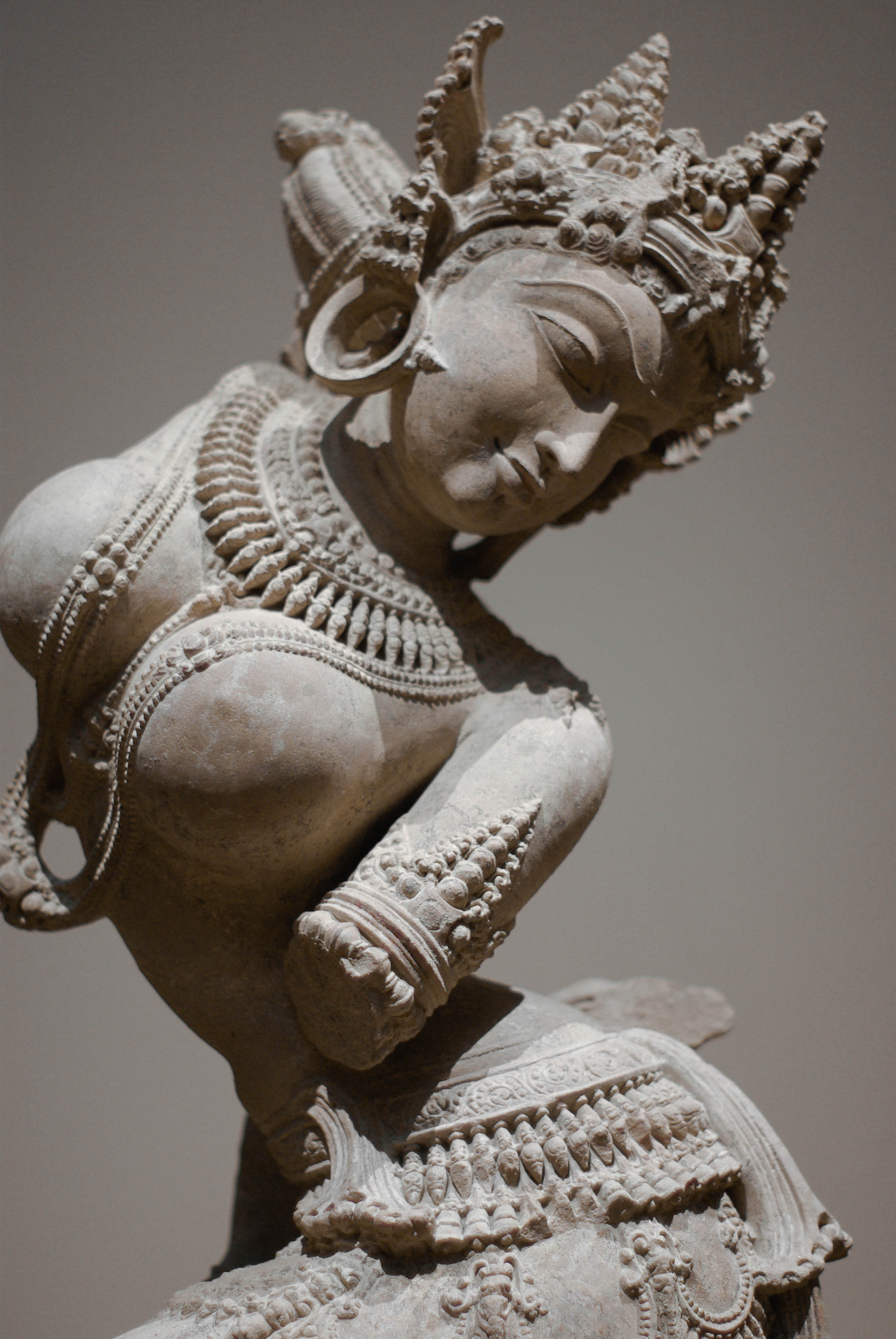 Dancing Celestial India (Uttar Pradesh). Early 12th century. Sandstone. H. 331/2 in. (85.1 cm) Promised Gift of Florence and Herbert Irving (L 1993.88.2) Metropolitan Museum of Art, NYC. The contours and richly ornamented surfaces of this celestial attendant to the gods exemplify a stylistic shift away from earlier Gupta-influenced forms. Here the linear play of surface decoration and dramatic contours replace the earlier emphasis on seamless volume and subtle balance. The sculptor has twisted the figure into an extraordinary pose that captures the essence of her dance and seems absolutely believable until one imagines actually trying to turn this way. The jewelry sways and emphasizes her movements, both in the way the necklaces and sashes follow the curves of her body and in the upward thrust of the spiked tips of her crown. The crisp carving of her adornments makes a pleasing contrast with the smooth and rounded surfaces of her flesh. Images of dancing semidivine attendants often appear on the outer walls of Hindu temples. They are placed near the figures of gods to honor the deity, just as actual female dancers honored the gods’ images within the temple.